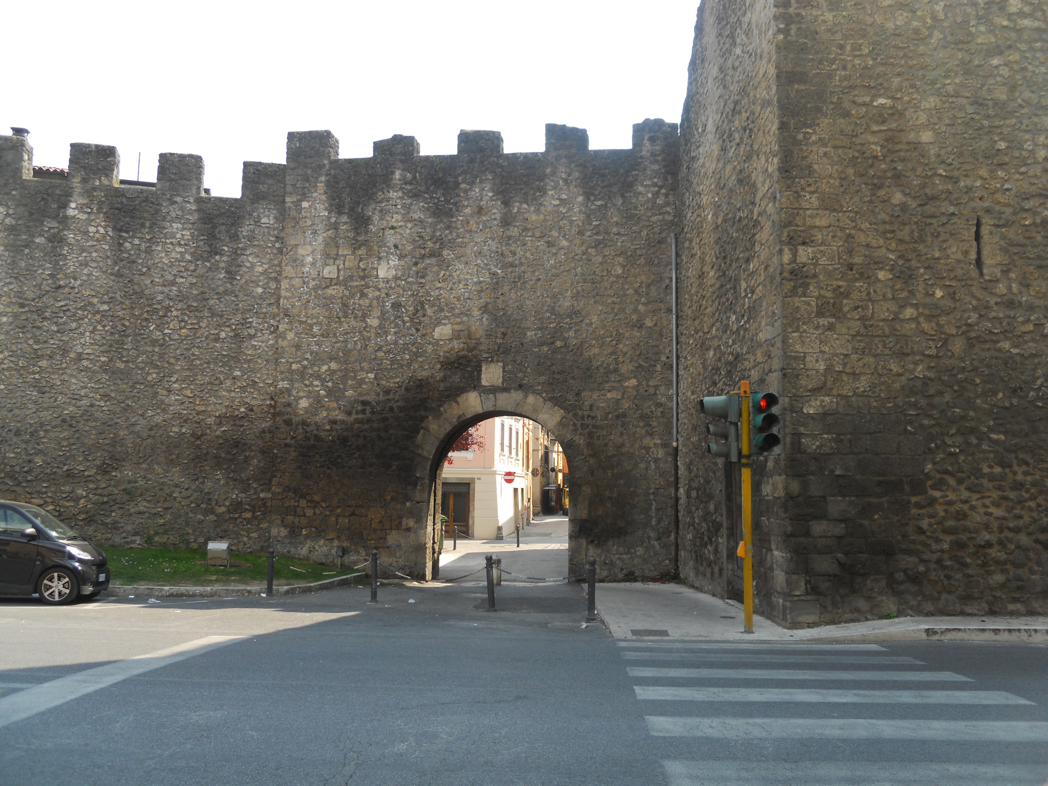 Porta Conca as seen from the outside - Rieti, Italy